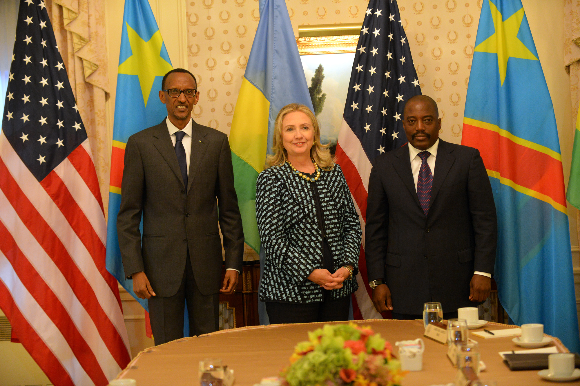 U.S. Secretary of State Hillary Rodham Clinton meets with Congolese President Joseph Kabila and Rwandan President Paul Kagame in New York, New York on September 24, 2012. [State Department photo/ Public Domain]